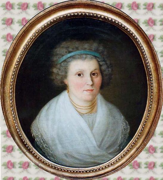 German-Swedish pioneer Fredrika Isaksdotter (Freideh Isaac), Mrs. Jacob Marcus (1760-1826), as released by image owner FamSACPlace: probably Norrköping, Sweden (photo: Skärholmen, Sweden)